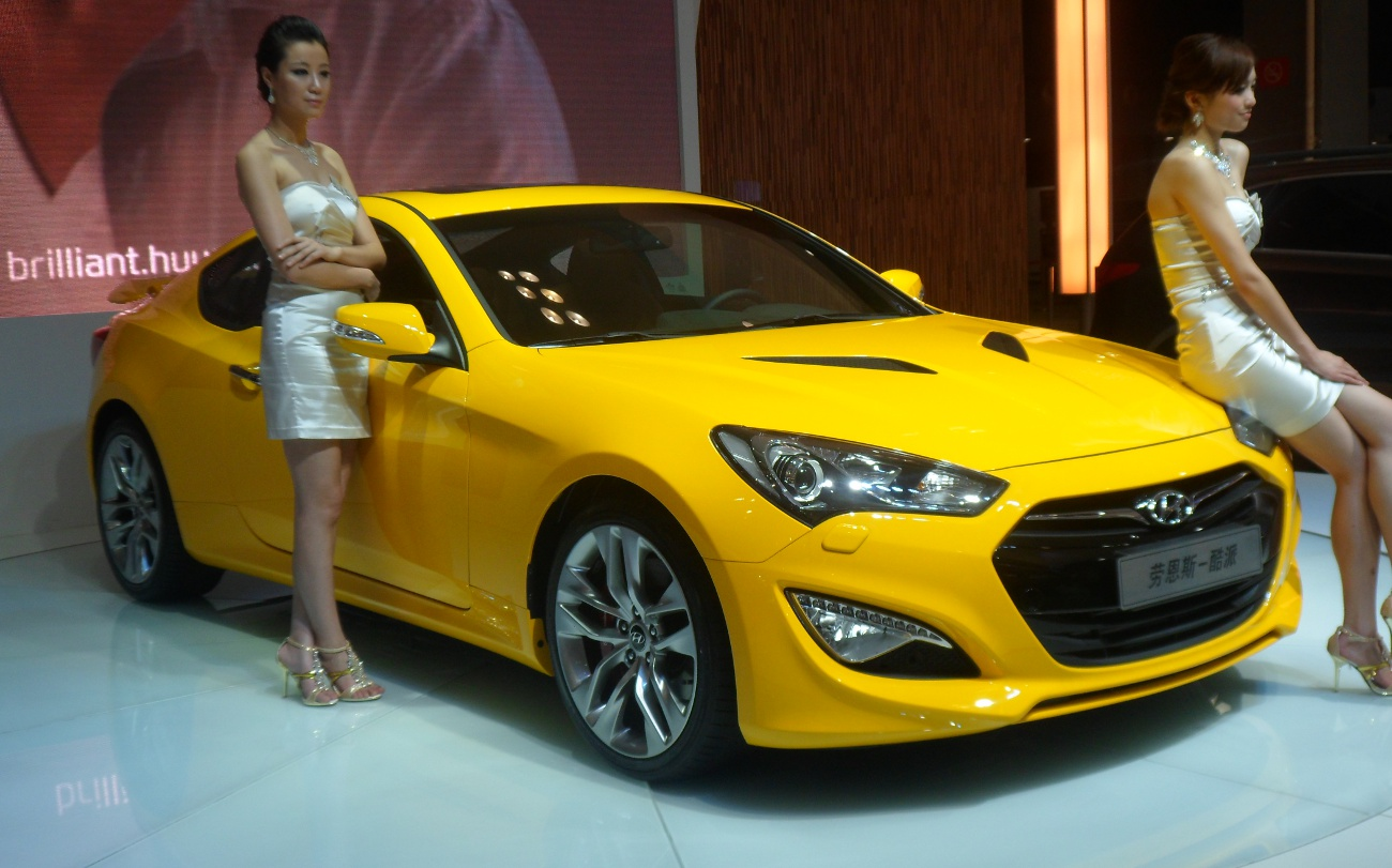 Hyundai Rohens Coupe facelift photographed at the 2012 Chongqing Auto Show, Chongqing, China.